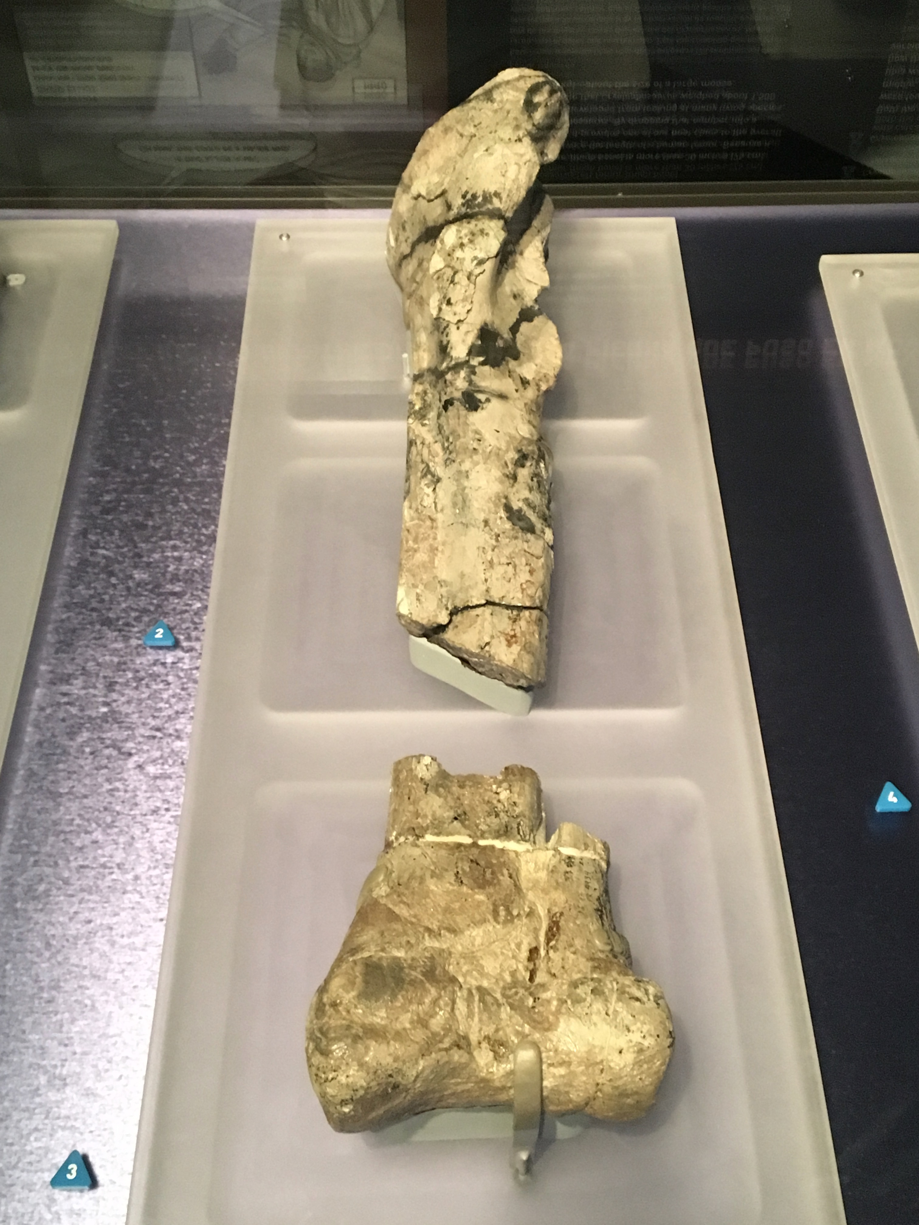 Cryolophosaurus fossil left tibia, fibula, with heel and astragalus